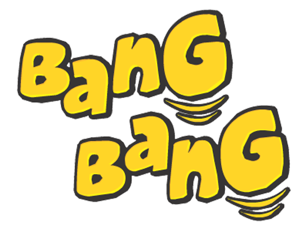 Bang Bang logo